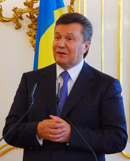 Viktor Yanukovych